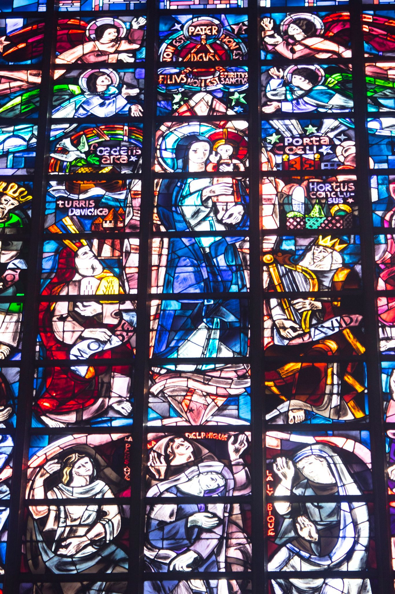 Basilique Notre Dame de la Trinité de Blois - Vitrail